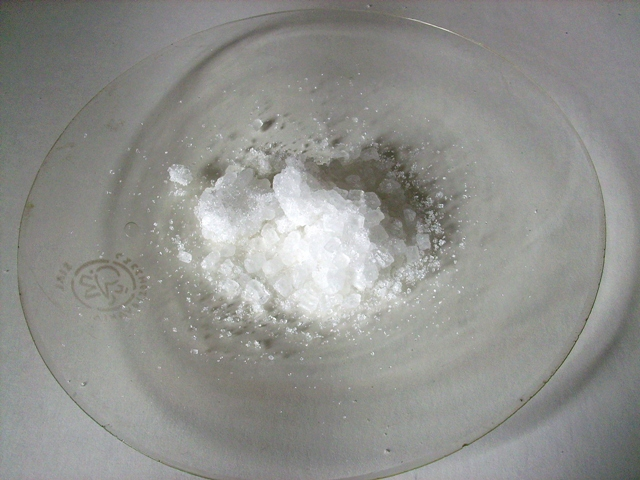 Sodium thiosulfate Na2S2O3